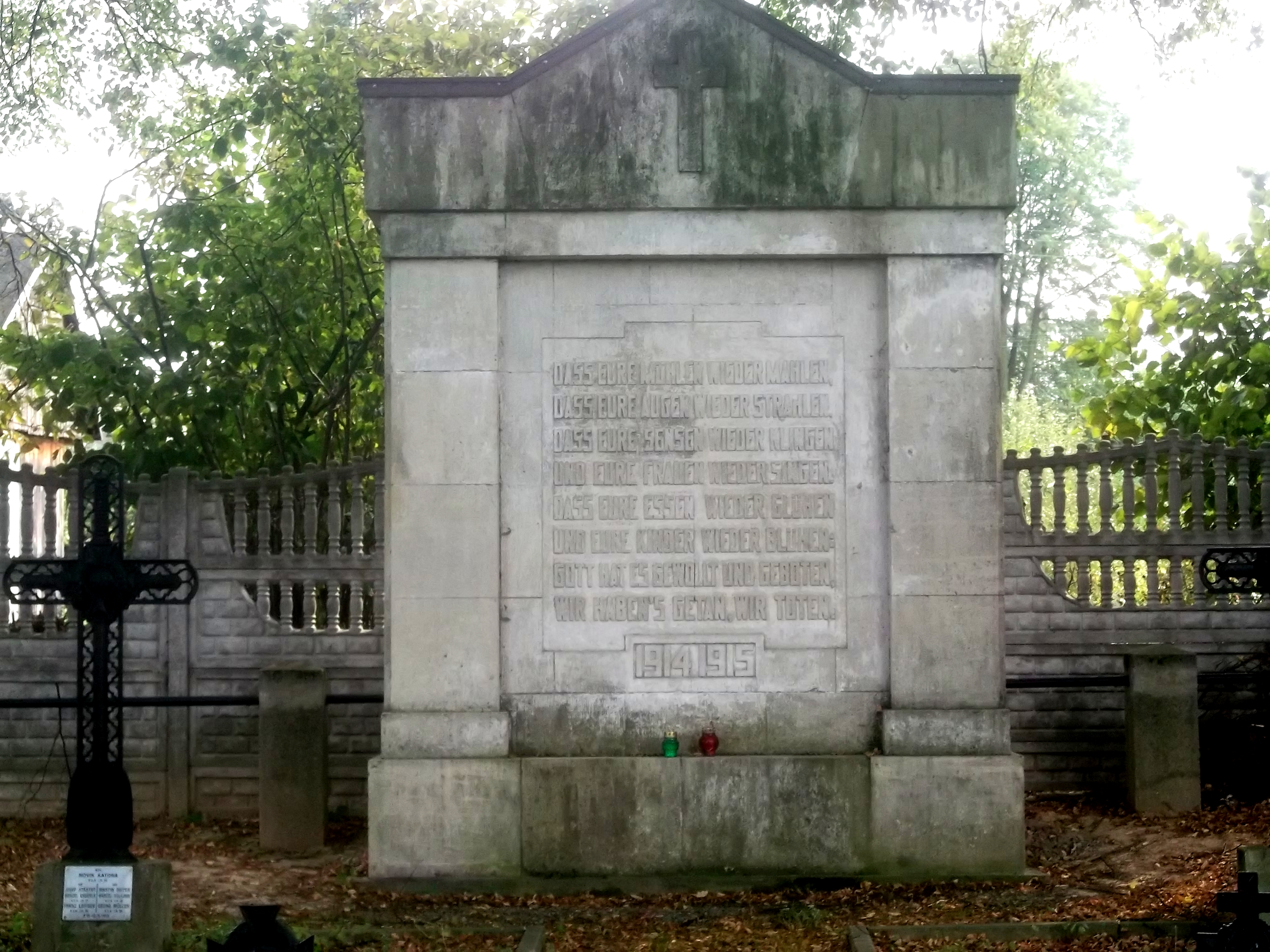 World War I Cemetery No. 160 in Tuchów